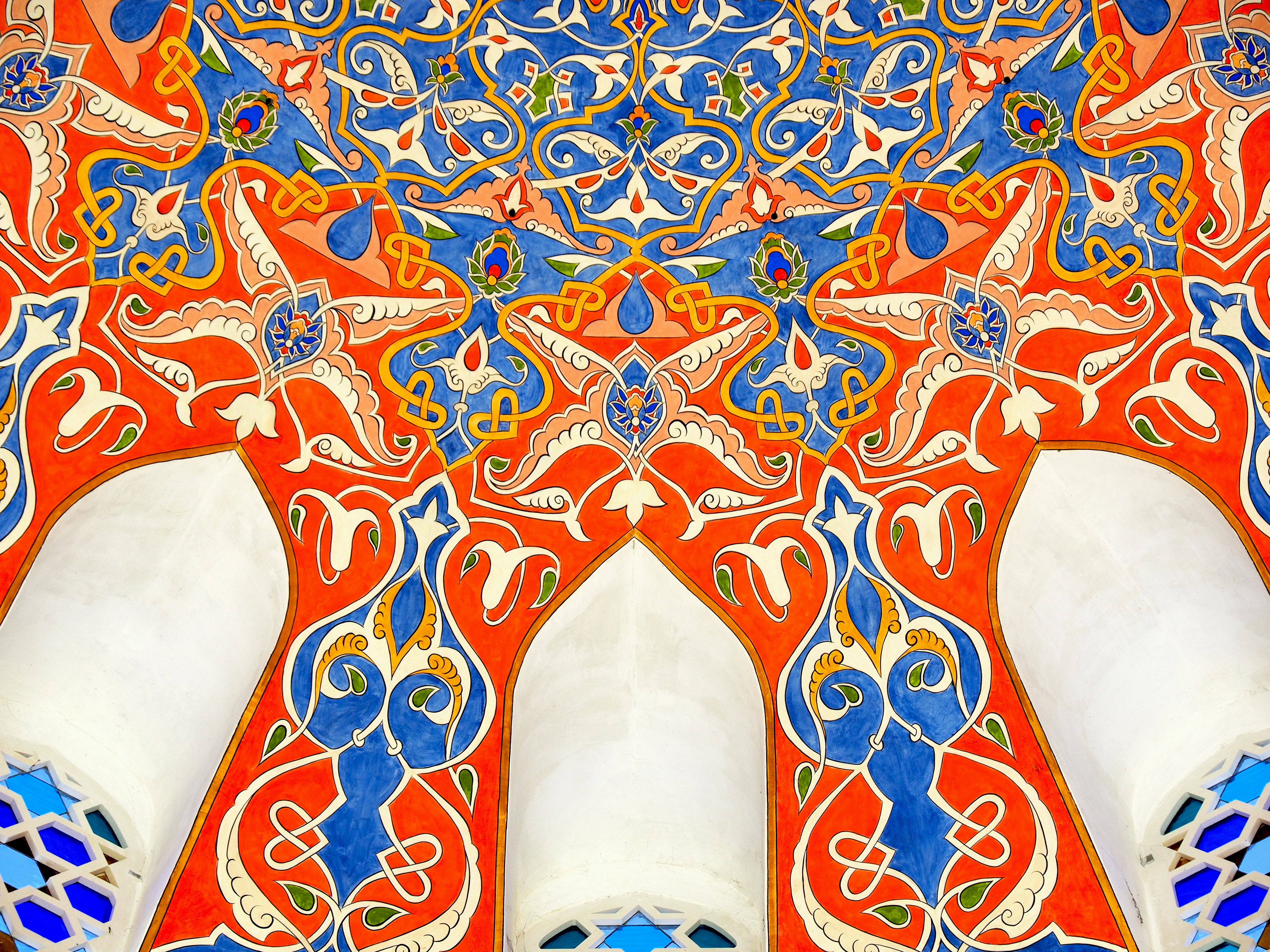 Ferhat-Pasha mosque dome arabesque in Banja Luka, Republika Srpska Српски (ћирилица): Арабеска на крову джамије Ферхат-паше у Бањој Луци, Република Српска Ферхад-пашина (Ферхадија) џамија, са Ферхад-пашиним турбетом, турбетом Сафи-кадуне, турбетом пашиних барјактара, шадрваном, харемом, оградним зидовима и порталом, Бања Лука ID добра: NKD138 This image was uploaded as part of Trace of Soul 2017. This photograph was taken with an Olympus E-M1